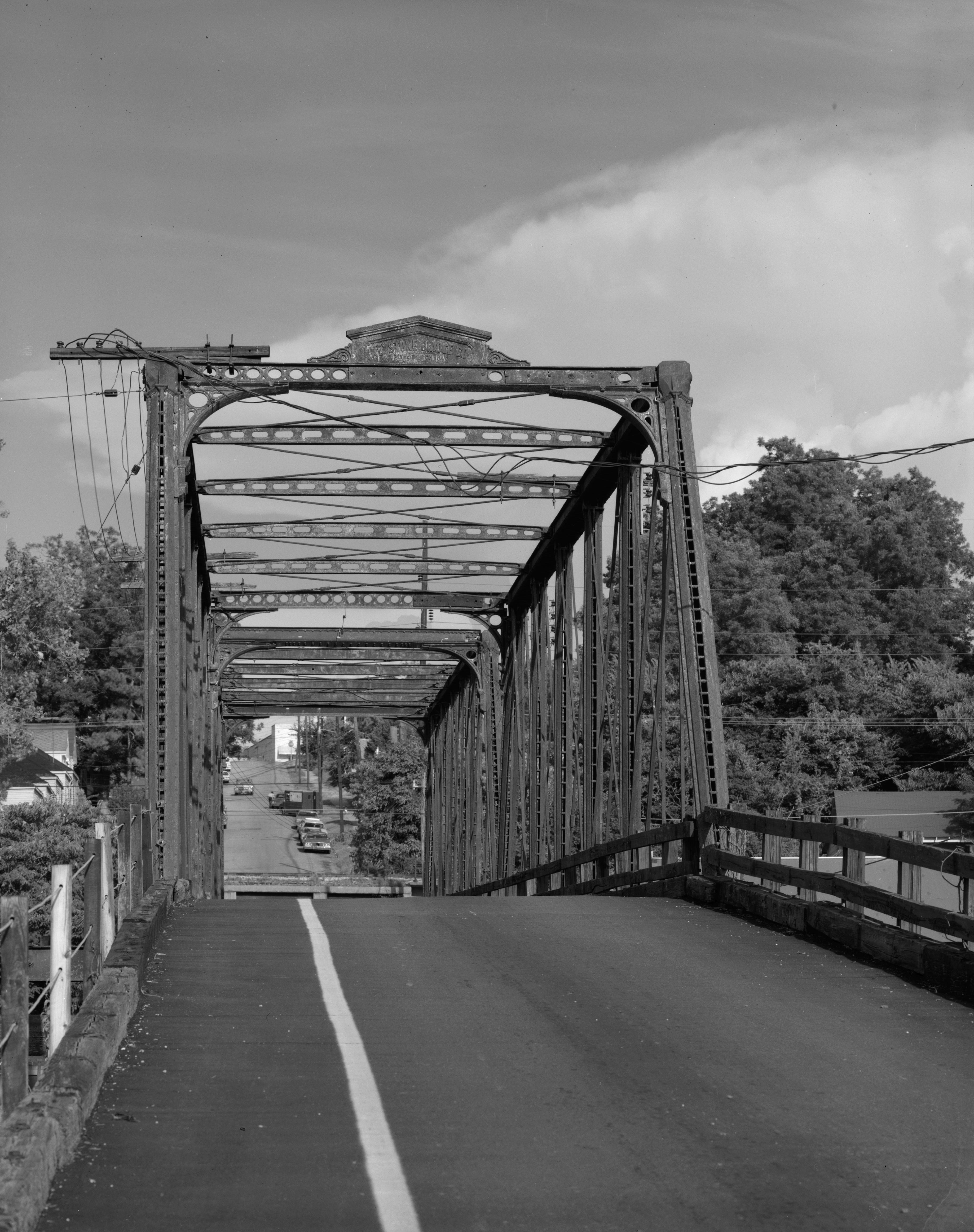 Western end of the Fairground Street Bridge, which carries Fairground Street over an Illinois Central railroad yard in Vicksburg, Mississippi, United States. Buitl in 1895, this Pratt through truss bridge is listed on the National Register of Historic Places.